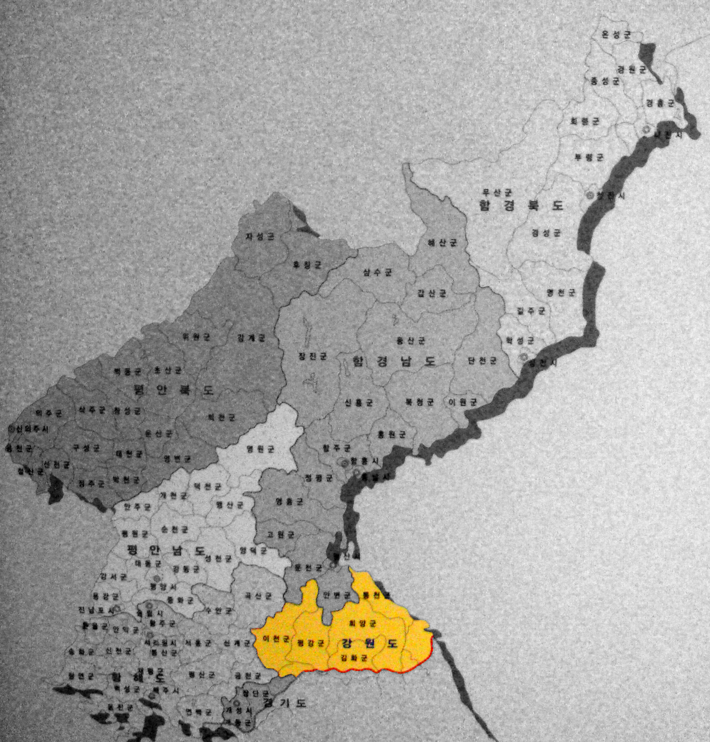 Locator map of Kangwon-do province of ROK (including regions which are de-facto under North Korean control, highlighted)